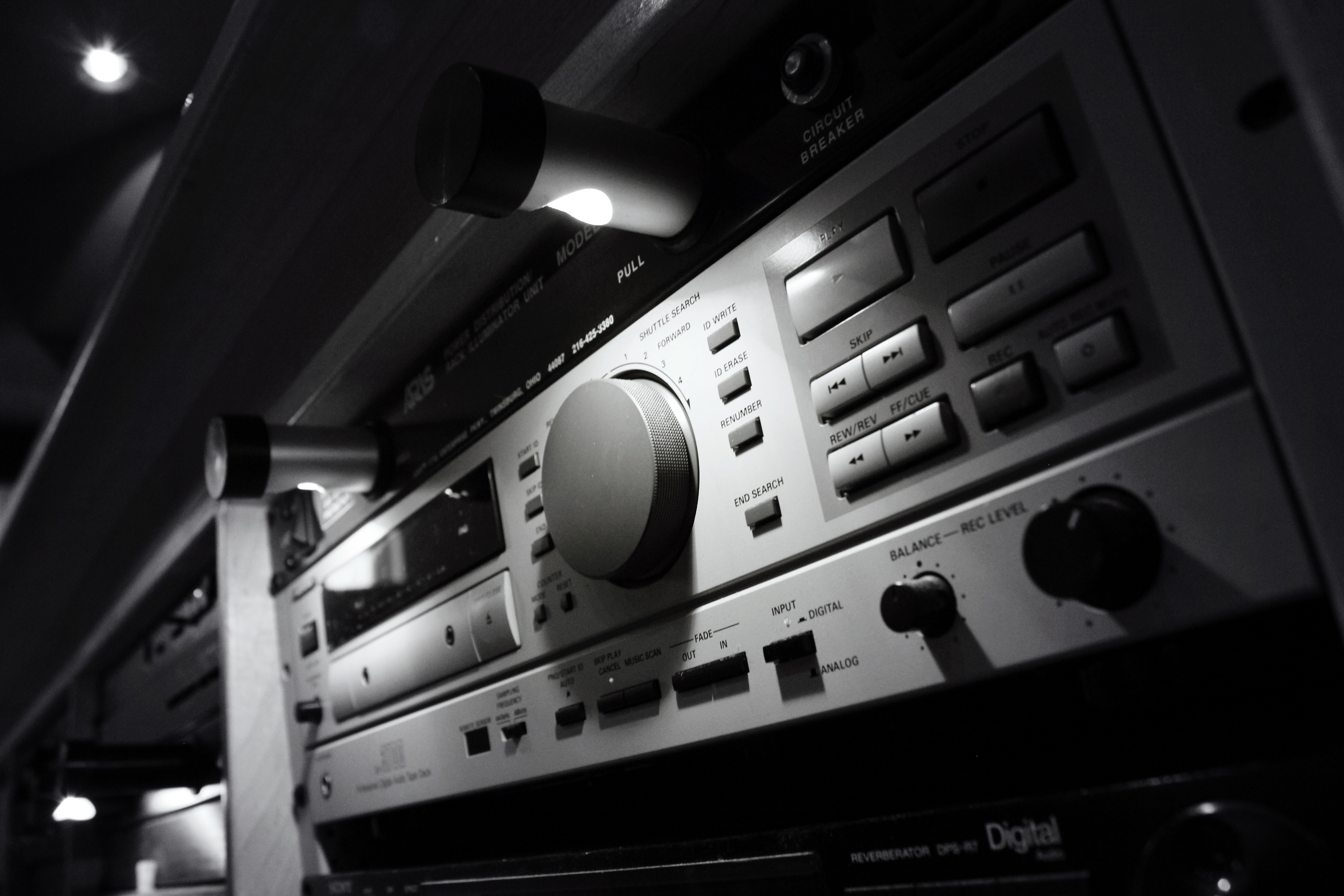 Panasonic SV-3700 (or SV-3800) DAT recorder